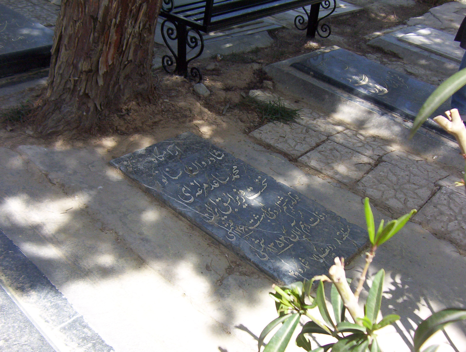 Grave stone of Mohammad Sa'ed Maraghei.